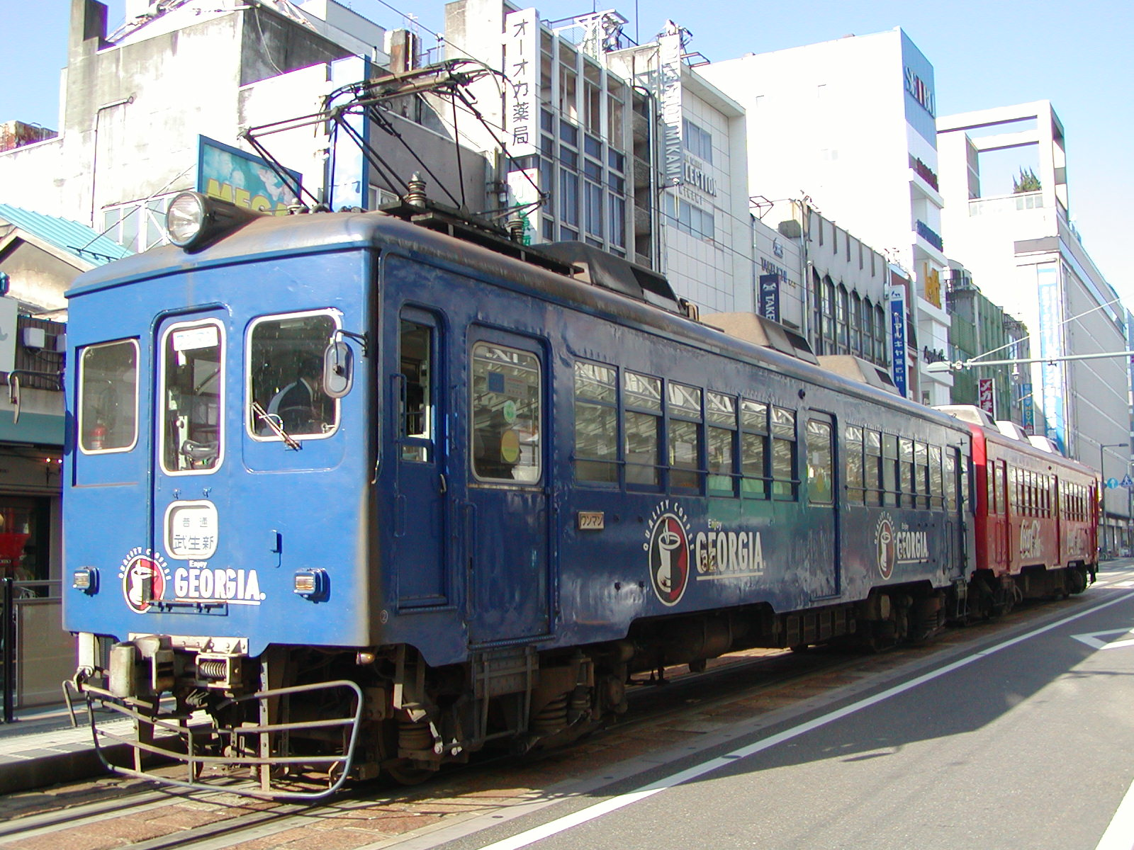 Fukui railway 82 in Fukui-ekimae station.